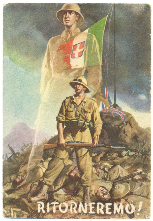 Image (improved with my software) of mountain fightings in Ethiopia in 1941 (after italian conquest in 1936). Public Domain because more than 70 years old.